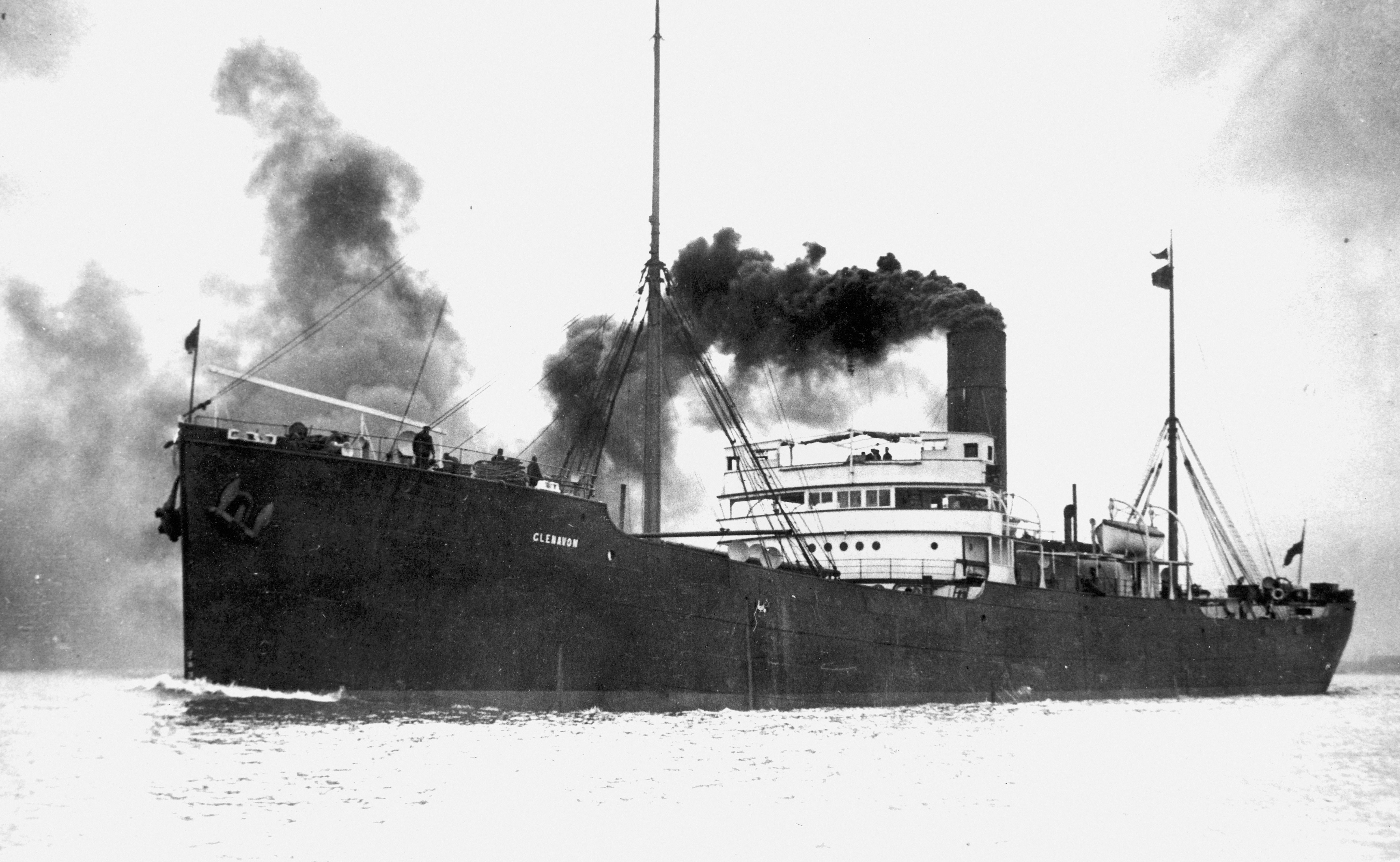 4,262 GRT cargo steamship Glenavon.Swan, Hunter and Wigham Richardson built her at Wallsend, England in 1904 as Branksome Hall for Ellerman Lines of Liverpool. About the same time Ellermans took over McGregor, Gow and Co, known as Glen Line. In 1906 Ellermans transferred Branksome Hall to McGregor, Gow, who renamed her Glenavon. In 1911 the ship was transferred back to Ellermans, and her original name was restored to her.In 1918 Branksome Hall left Newport, South Wales with a cargo of coal for Port Said, Egypt. On 14 July the U-boat UB 105 torpedoed her off the coast of Libya. She sank with no loss of life.